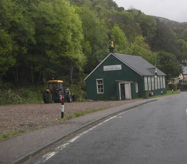 Village hall, Onich